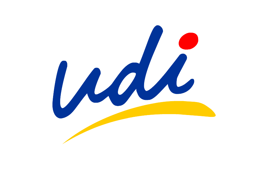 Flag of the Independent Democrat Union